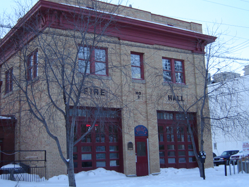 Saskatoon Heritage Society Protected Houses 1958 Fire Hall #3 Nutana, Nutana SDA, Saskatoon, Saskatchewan, Canada